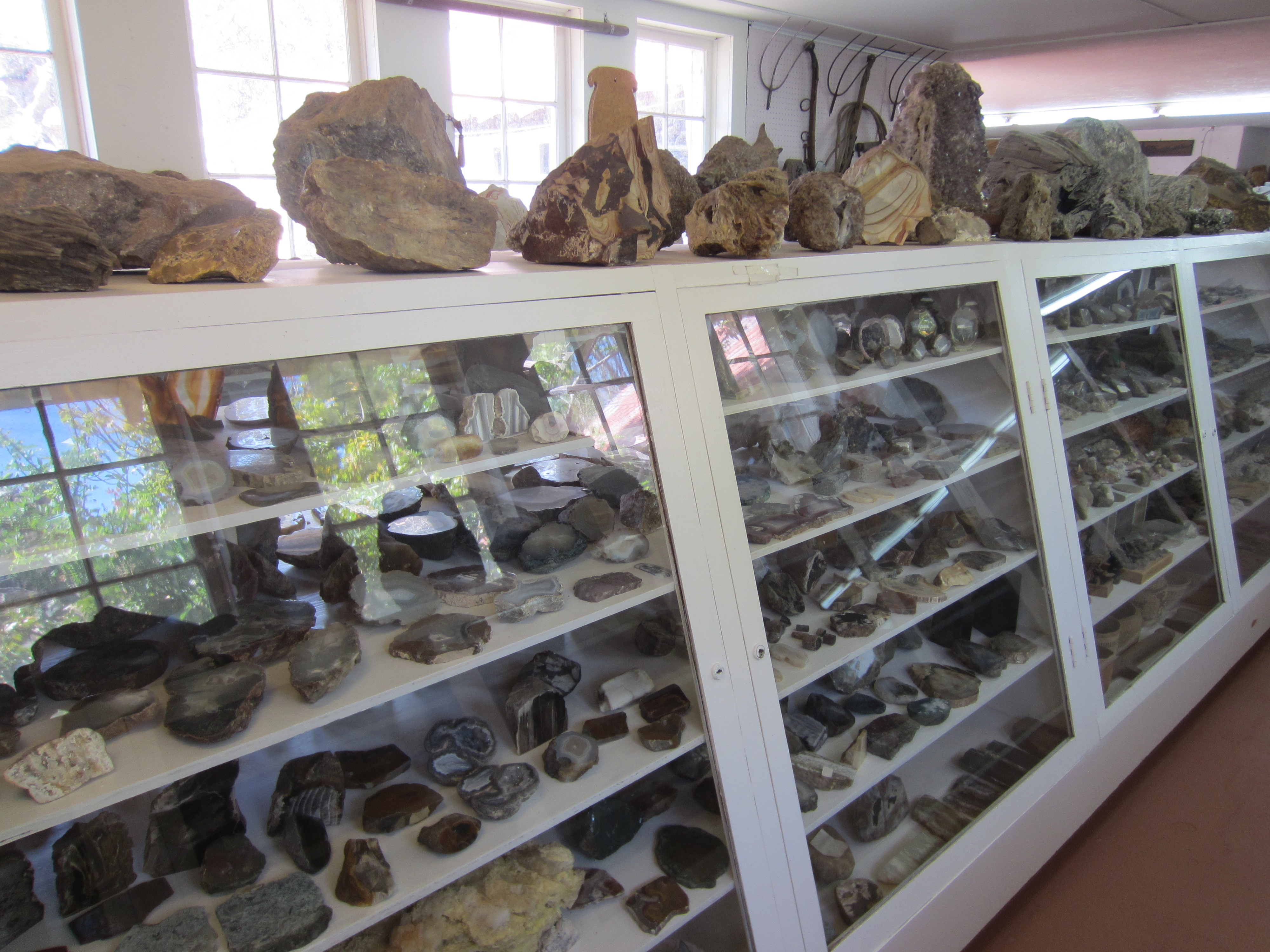 Petersen Rock Garden, Central Oregon, United States (2013)